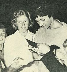 Doreen Helen Porter (born 21 July 1941) later Doreen Porter-Shann is a former New Zealand sprinter.